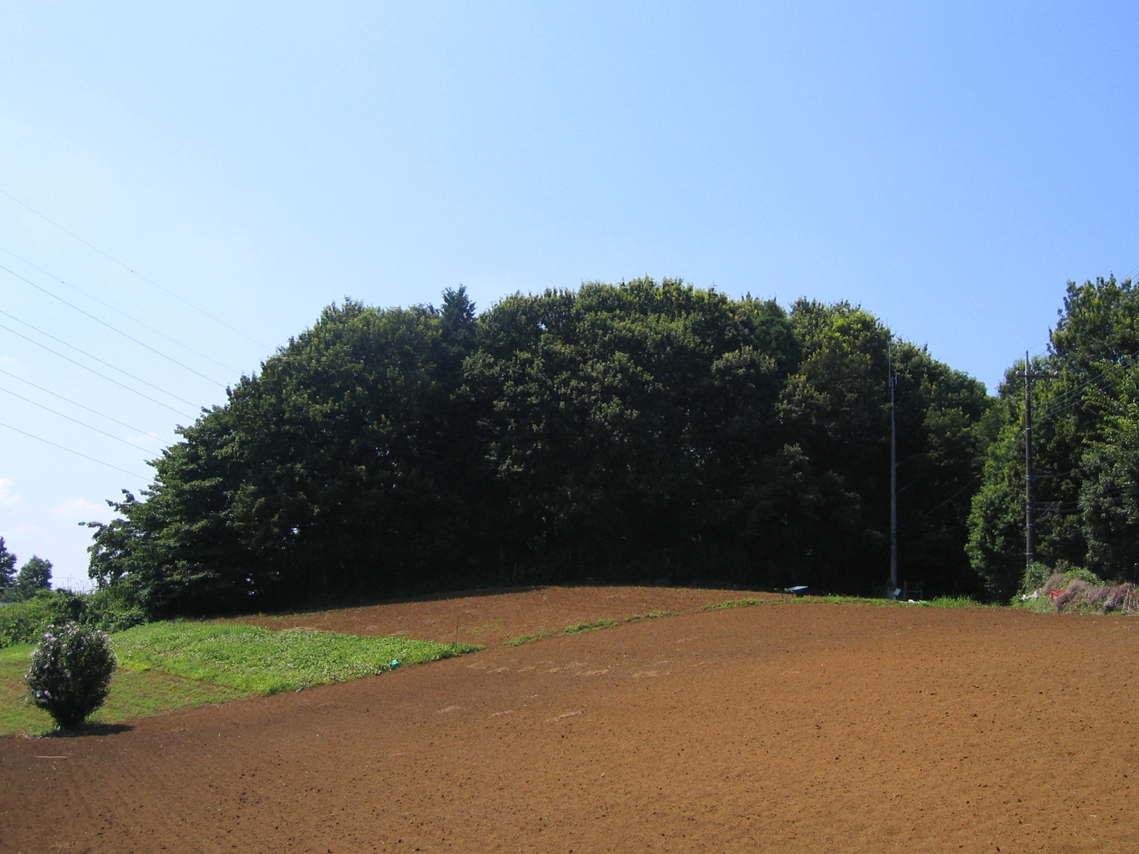 Around the summit of Nanakuniyama, Machida, Tokyo, Japan